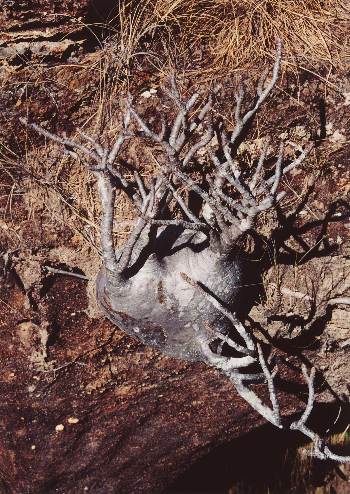 Pachypodium horombense (Elephant's Foot), the "bonsai baobab" tree of Madagascar